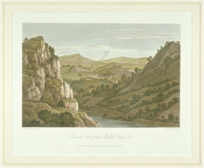 General View from Matlock High Tor in derbyshire. Artist:Joseph FARINGTON Title:General View from Matlock High Tor Publication Title Britannia Depicta, Part VI, Derbyshire Date published 15 May 1817 Medium Coloured engraving Lettering below image: [left] Drawn by J. Farington Esq.r R.A. [right] Engraved by John & Letitia Byrne. / Matlock Church. / Published May 15, 1817, by T. Cadell & W. Davies, Strand, London Published T. Cadell & W. Davies, Strand, London, 15 May 1817 Acquisition Purchased from Sotheby's by GAC, 22 February 1977 Number 13030